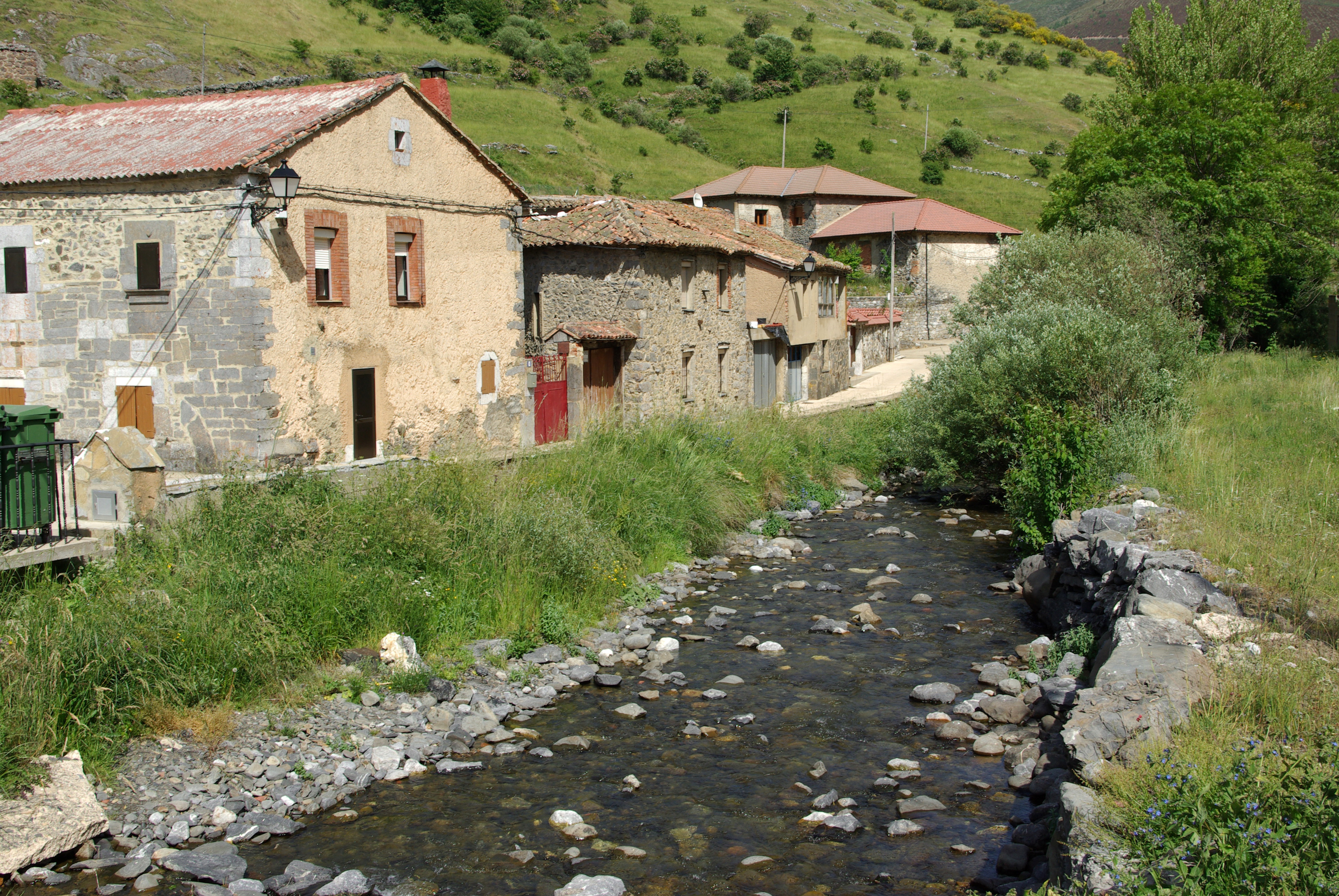 River Torío in Piedrafita de la Mediana (Cármenes, León, Spain).